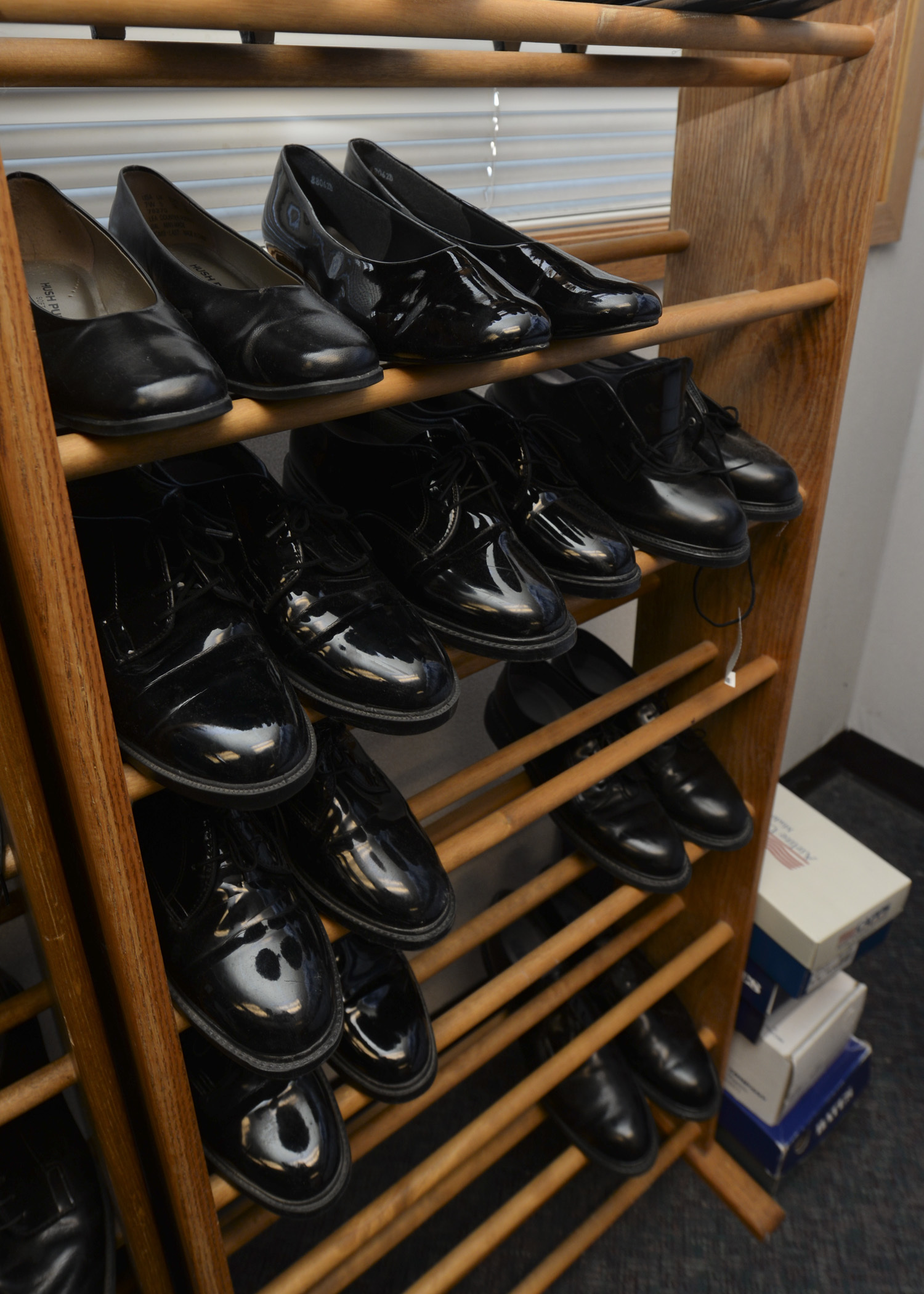 Serviceable shoes and boots of all sizes fill a rack to at the Diamond Mart on Ellsworth Air Force Base, S.D., Dec. 4, 2014. Due to the generous donations from active-duty and retired service members, the Diamond Mart is able to provide an additional resource of uniformed clothing items for active-duty Airmen who may need replacement items. (U.S. Air Force photo by Senior Airman Anania Tekurio/Released)